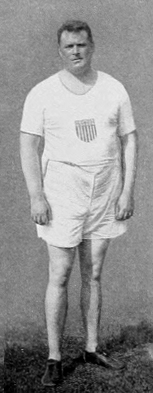 Matt McGrath at the 1912 Olympics